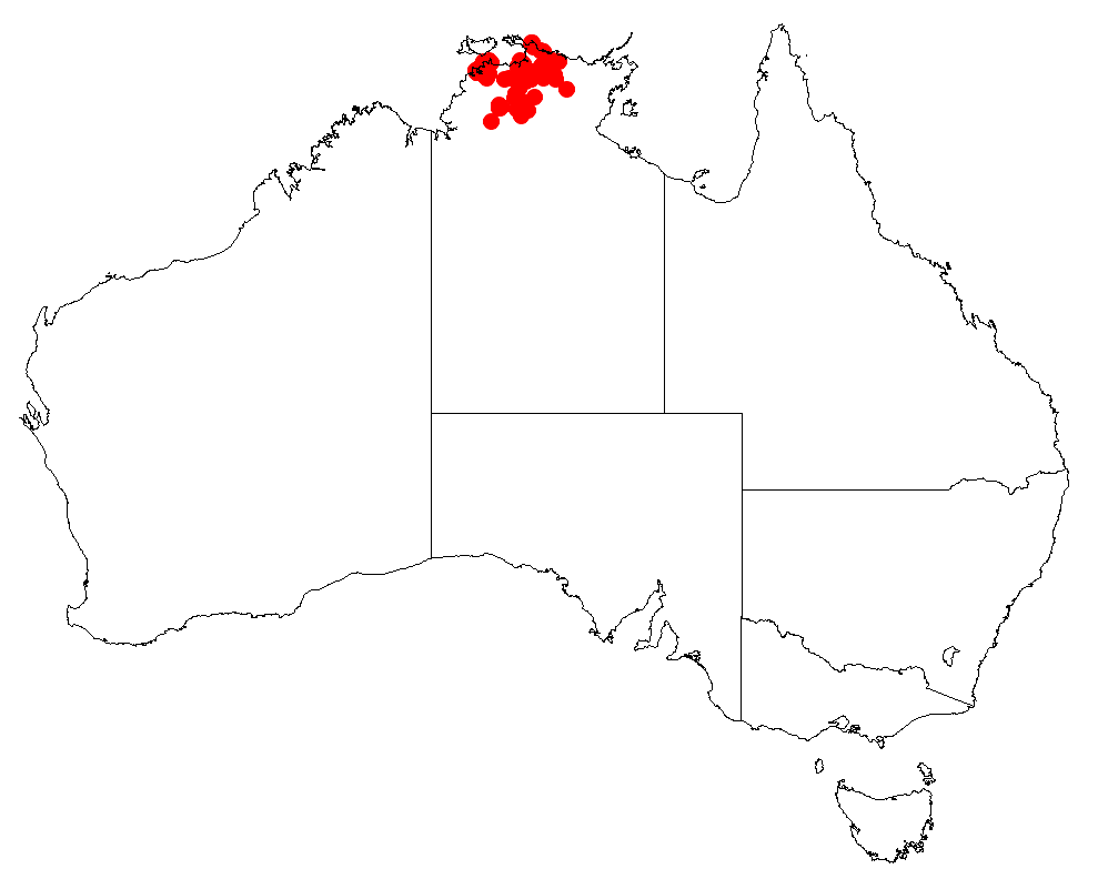 Acacia mimula Occurrence data from Australasia Virtual Herbarium downloaded from on 8 December 2018